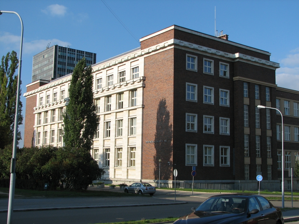 Faculty of Law - Masaryk University, Brno